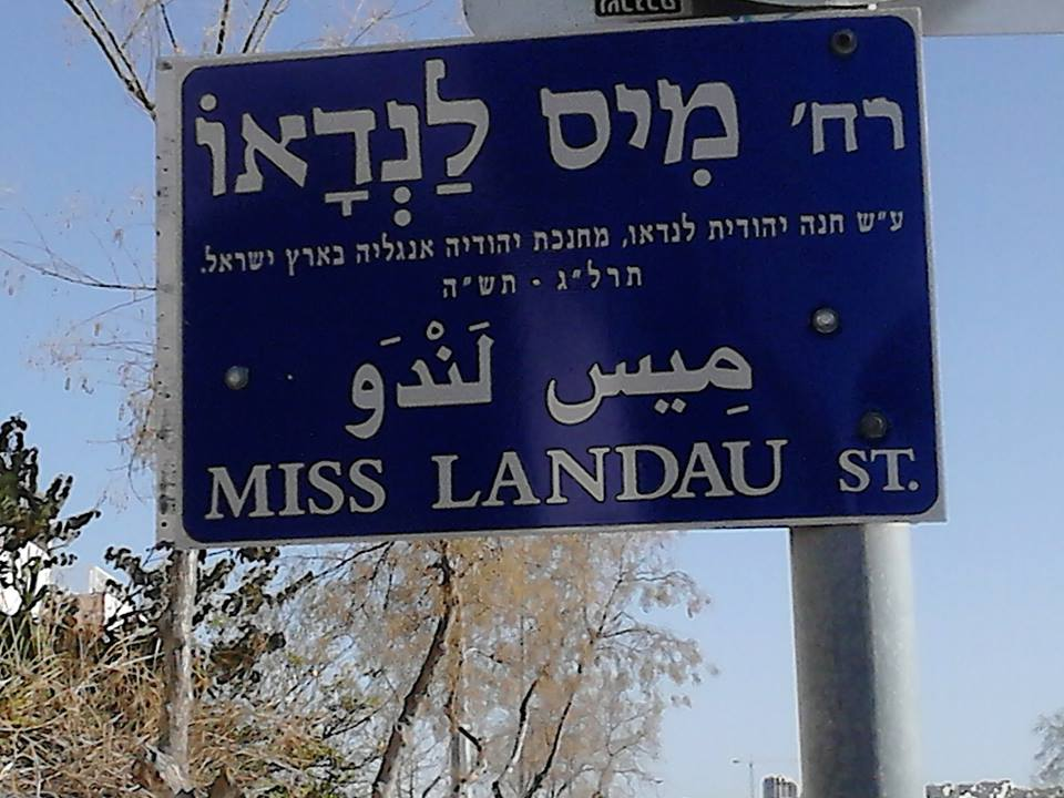 Jerusalem, Giv'at Masu'a, Miss Landau street sign